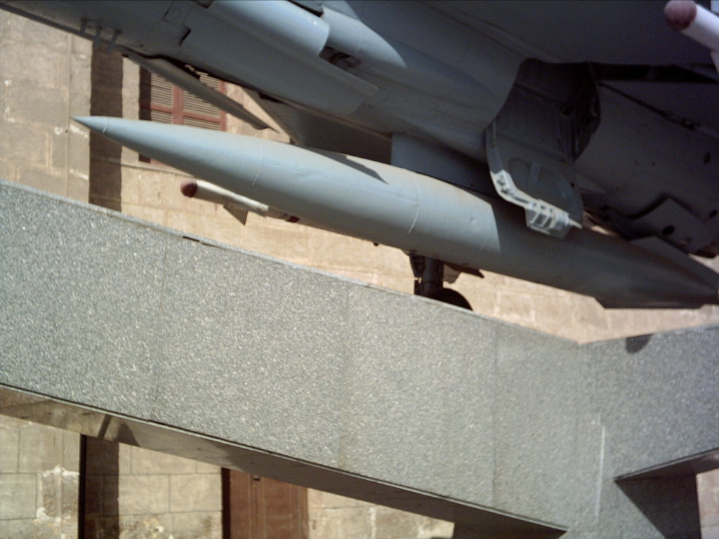 Drop tank of an Egyptian MiG-21F, Military Museum of Egypt in Cairo Citadel